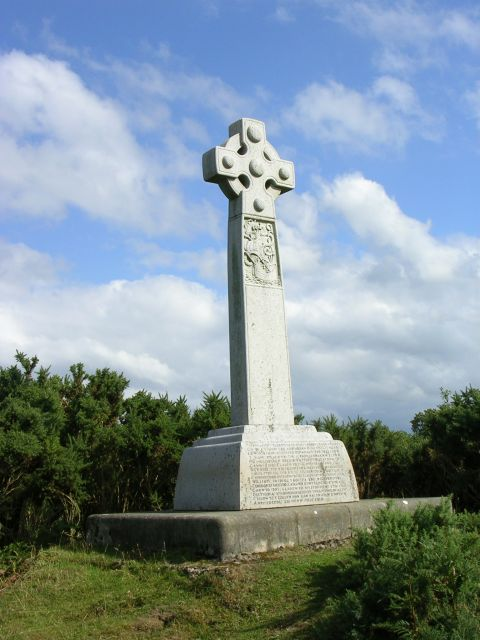 Morris Brothers Memorial. A closer view of this memorial. Taken from SH478872 looking SE.